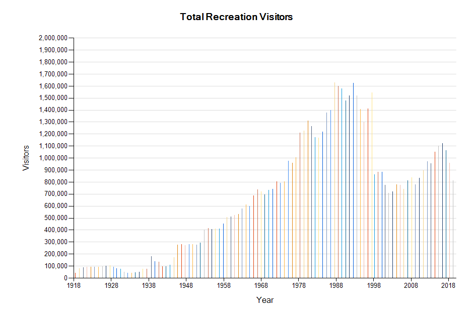 A graph depicting the yearly number of visitors to Muir Woods National Monument